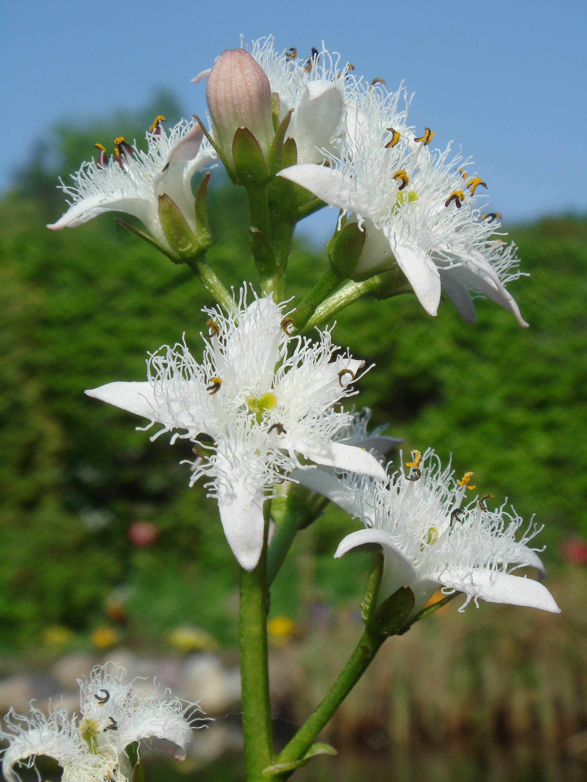 Menyanthes trifoliata, Garden in Germany